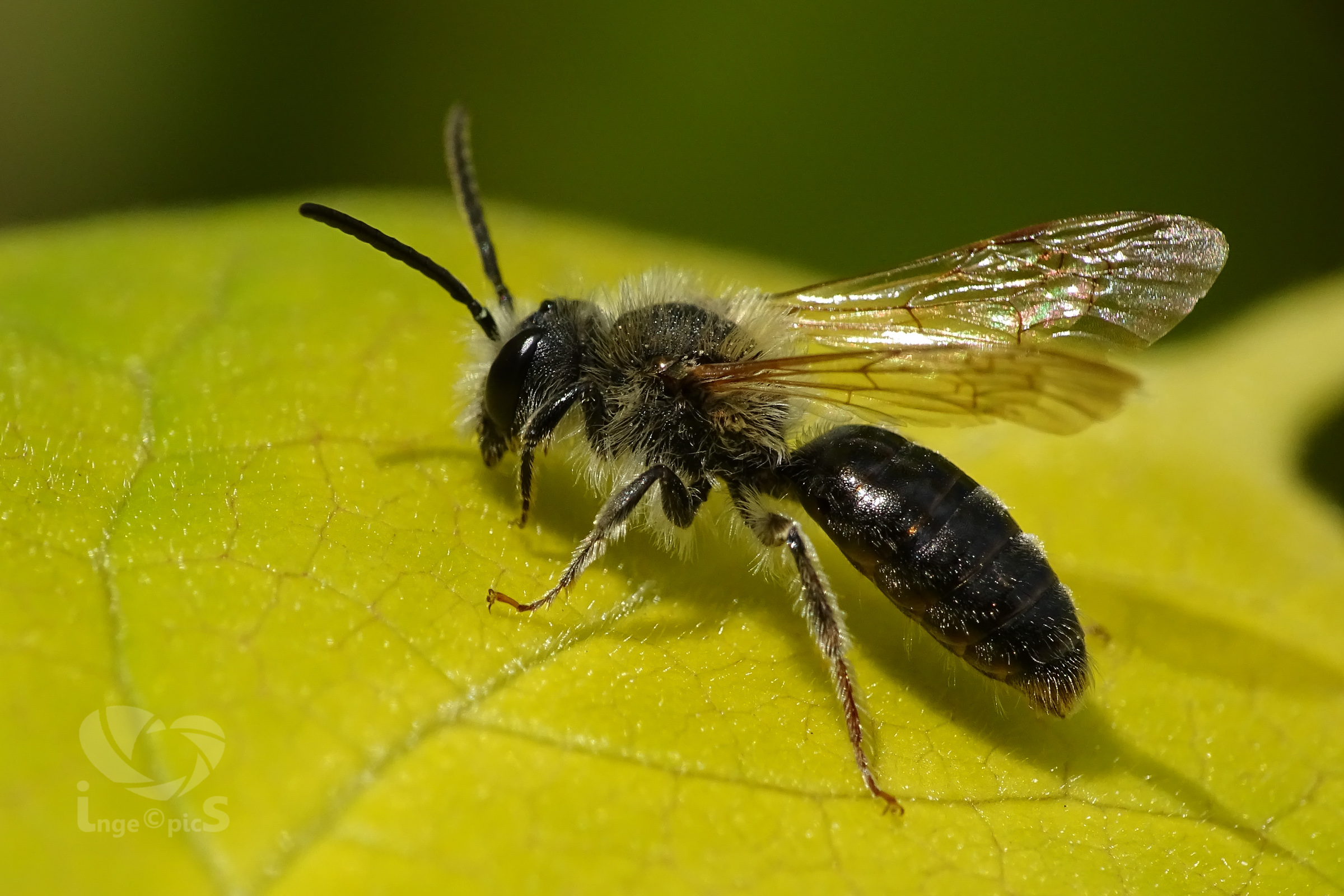 kind of